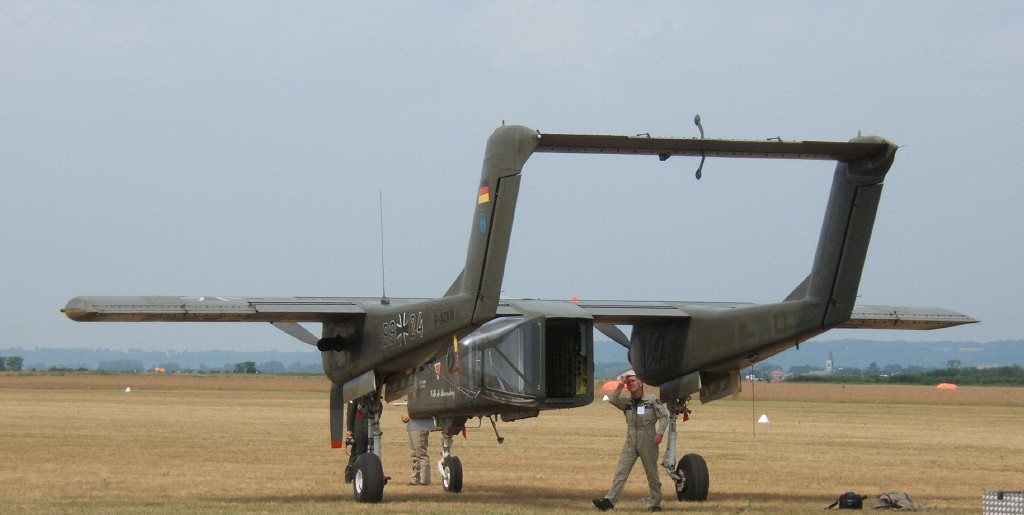 Rockwell OV-10 Bronco